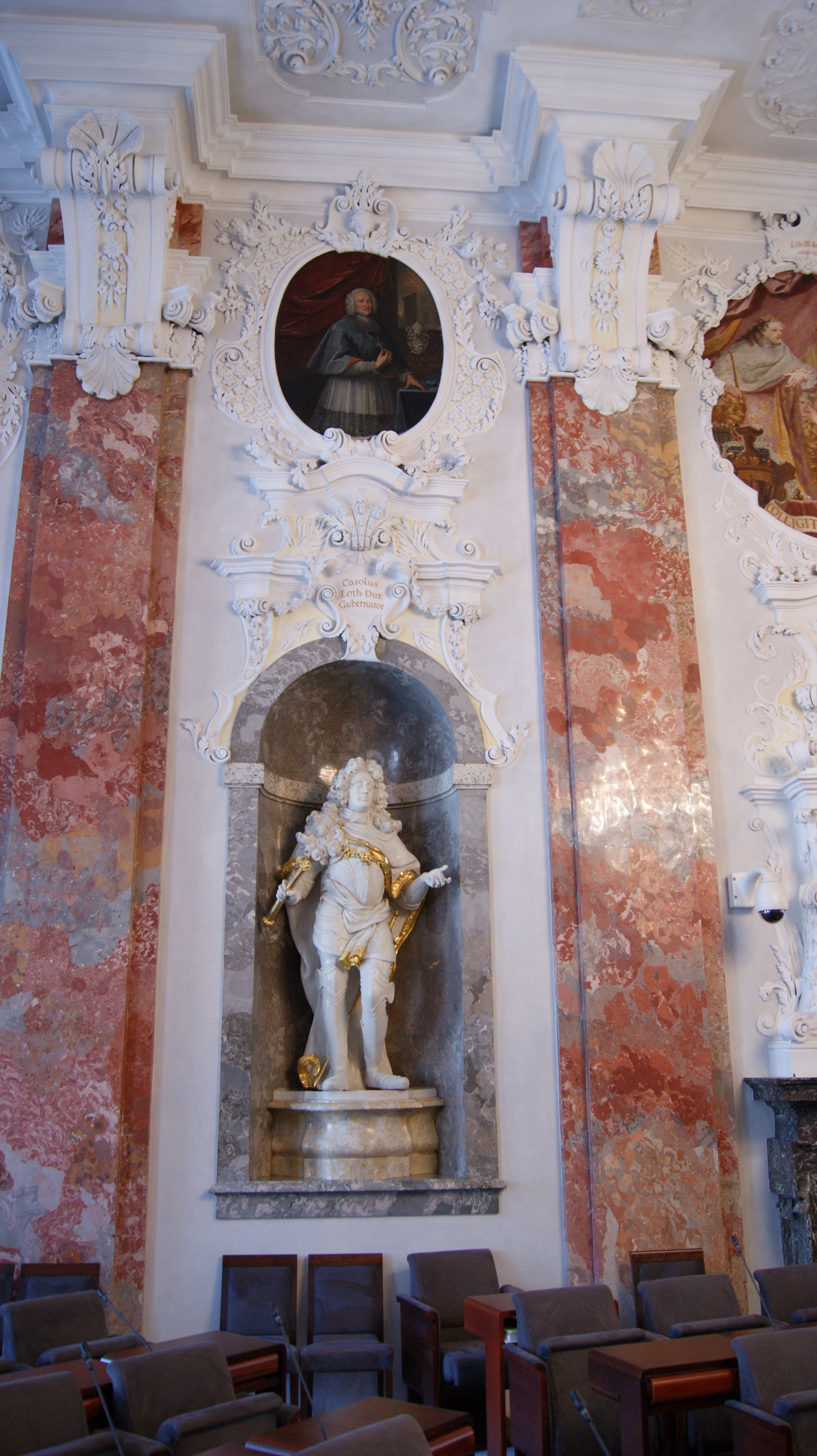 Old Tyrolian regional assembly hall in Innsbruck. Gubernator Carolus.